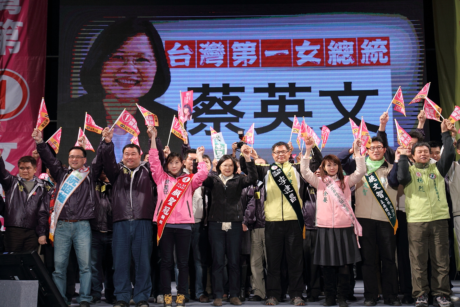 Democratic Progressive Party (DPP) presidential candidate Tsai Ing-wen (center) attends a rally in Taipei on Dec. 25, 2011.